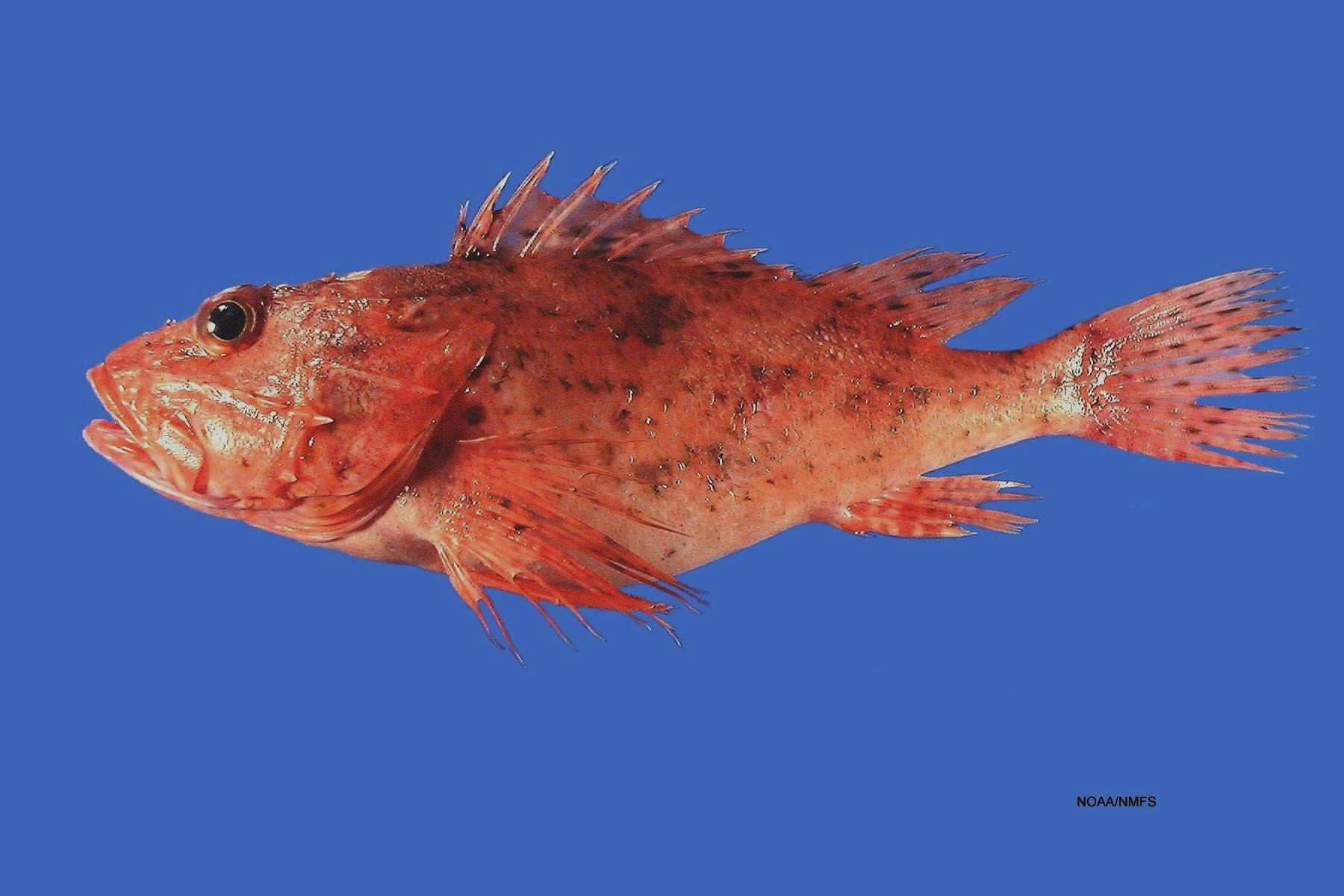 Spinycheek scorpionfish (Neomerinthe hemingwayi). Gulf of Mexico.